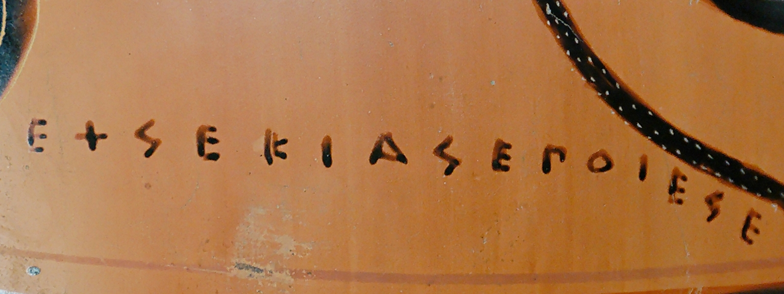 Exekias' signature (ΕΧΣΕΚΙΑΣ ΕΠΟΙΕΣΕ) as potter, rotated 90° anticlockwise, detail from a scene representing Herakles and Geryon. Side A from an Attic black-figure amphora, ca. 550–540 BC.